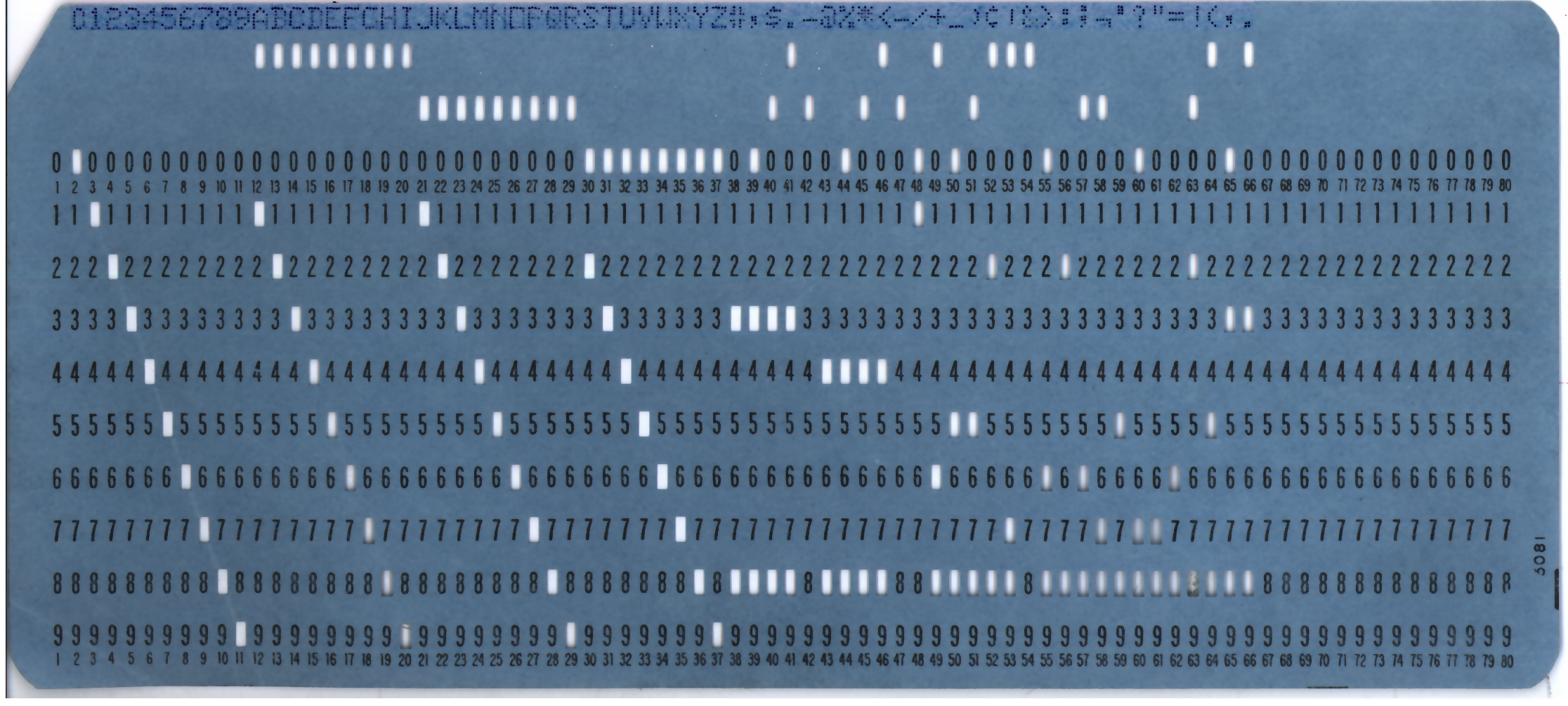 This is the front of a blue IBM-style punched card. The contents of this card is the complete (or close to complete) EBCDIC Latin alphabet character encoding, starting 0123456789ABCDEFGHIJKLMNOPQRSTUVWXYZ, followed by special characters. One can read the letters printed along the top edge.